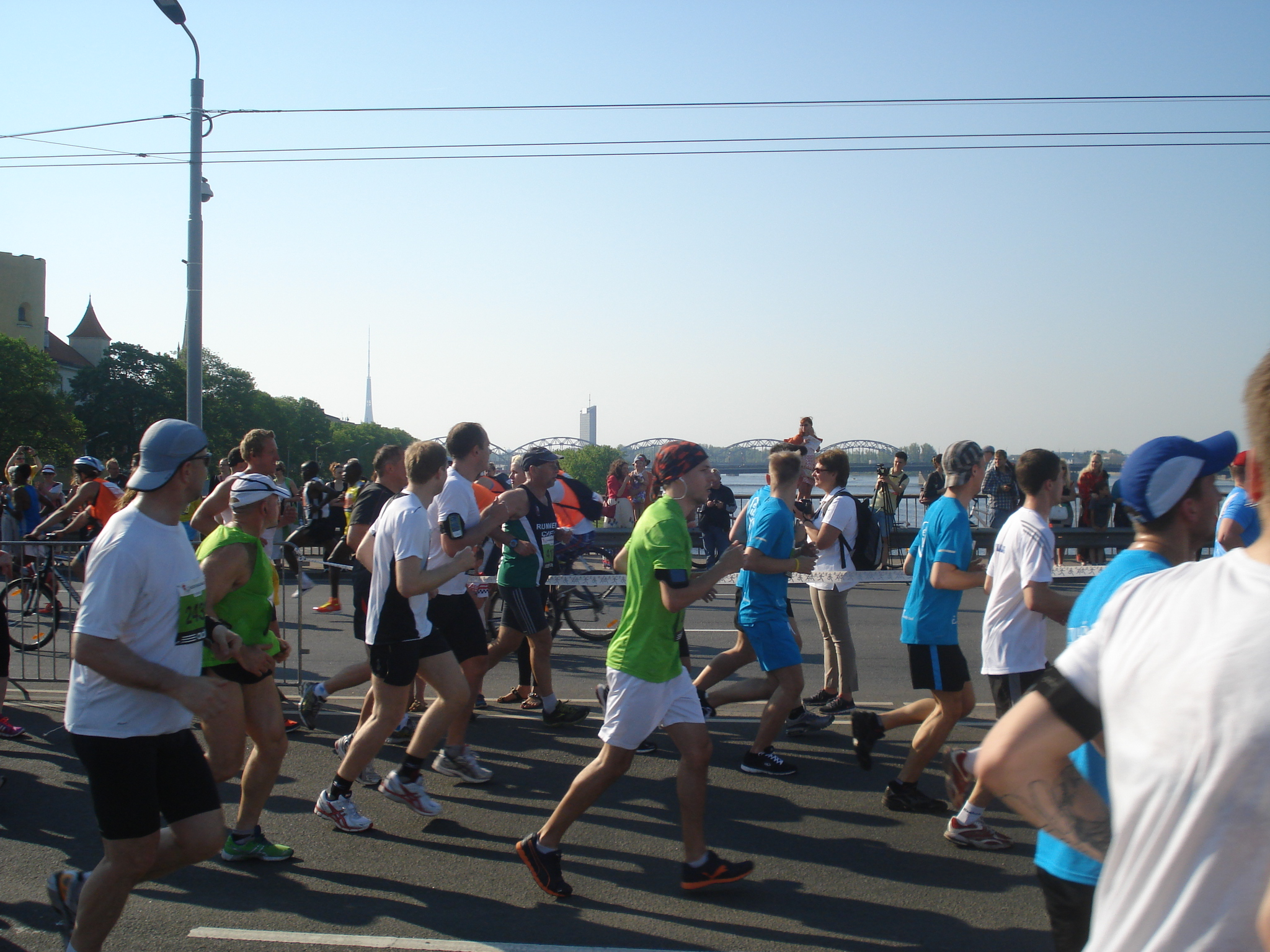 The Riga Marathon 2013 on the Vanšu Bridge (Riga, Latvia)